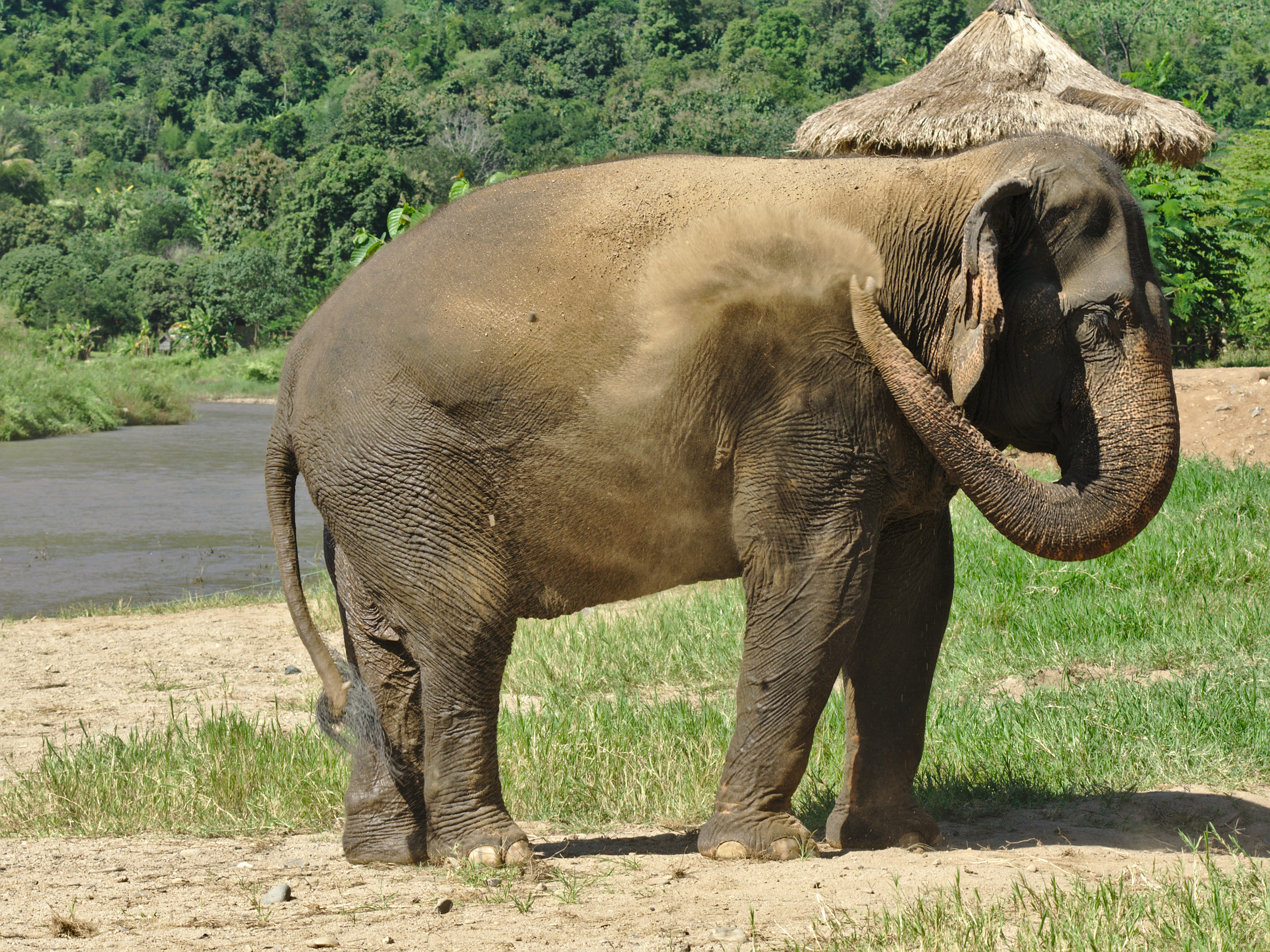 Asian elephant dust bathing in the Elephant Nature Park, Thailand